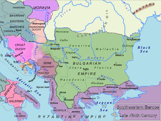 Sources: 1. The Early Slavs. Culture and Society in Early Medieval Eastern Europe. P M Barford. ISBN 0-8014-3977-9 2. The Early Medieval Balkans. John Fine, Jr. ISBN 0 472 08149 7 3. The Balkans. From Constantinople to Communism. D Hupchik. ISBN 1-4039-6417-4 Invalid ISBN Borders were often fluctuant, and those represented here are based on discussions contained within the above books.